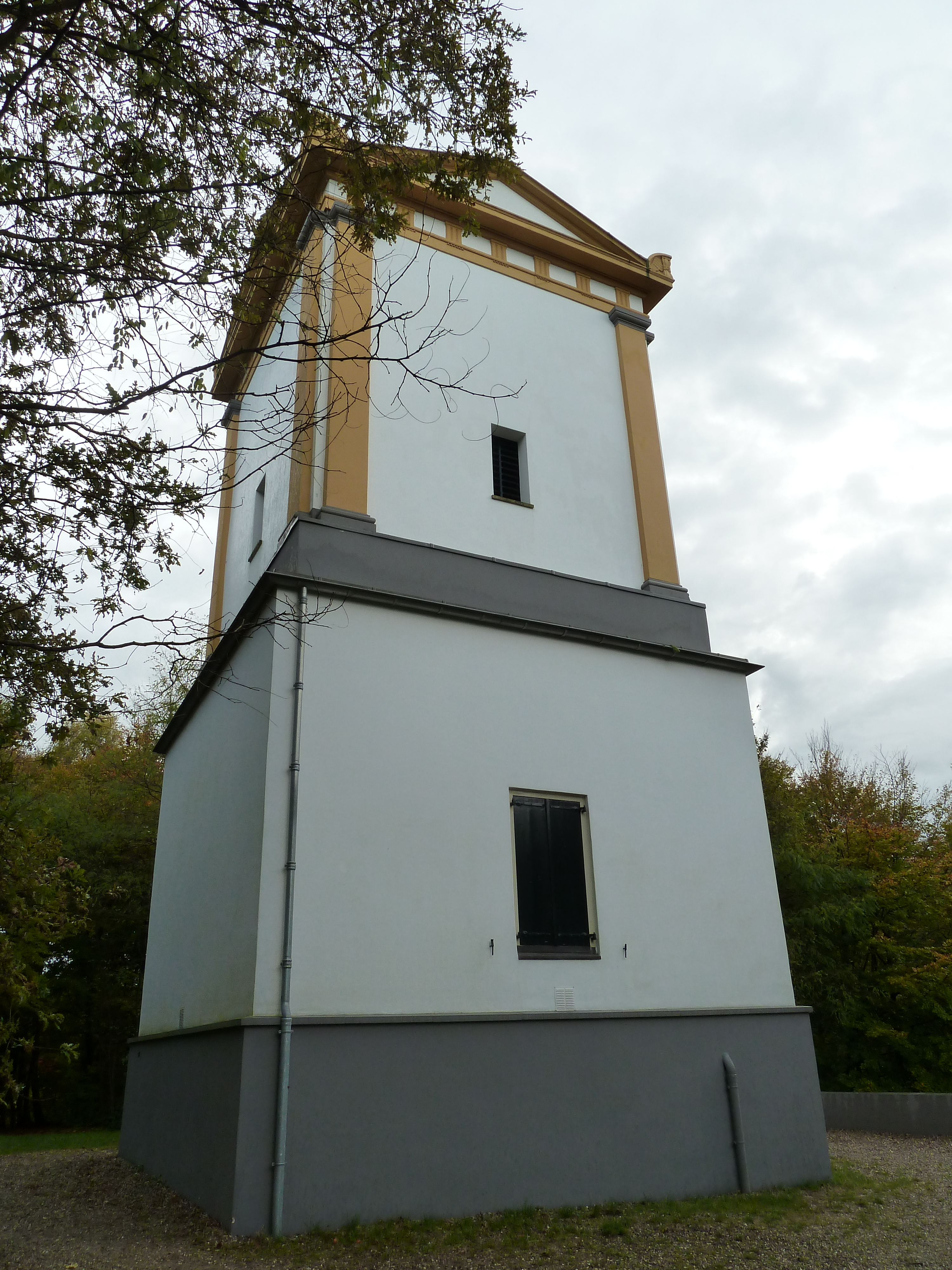 The Donderberg with on the top the tomb of Nellesteyn, Leersum, the Netherlands